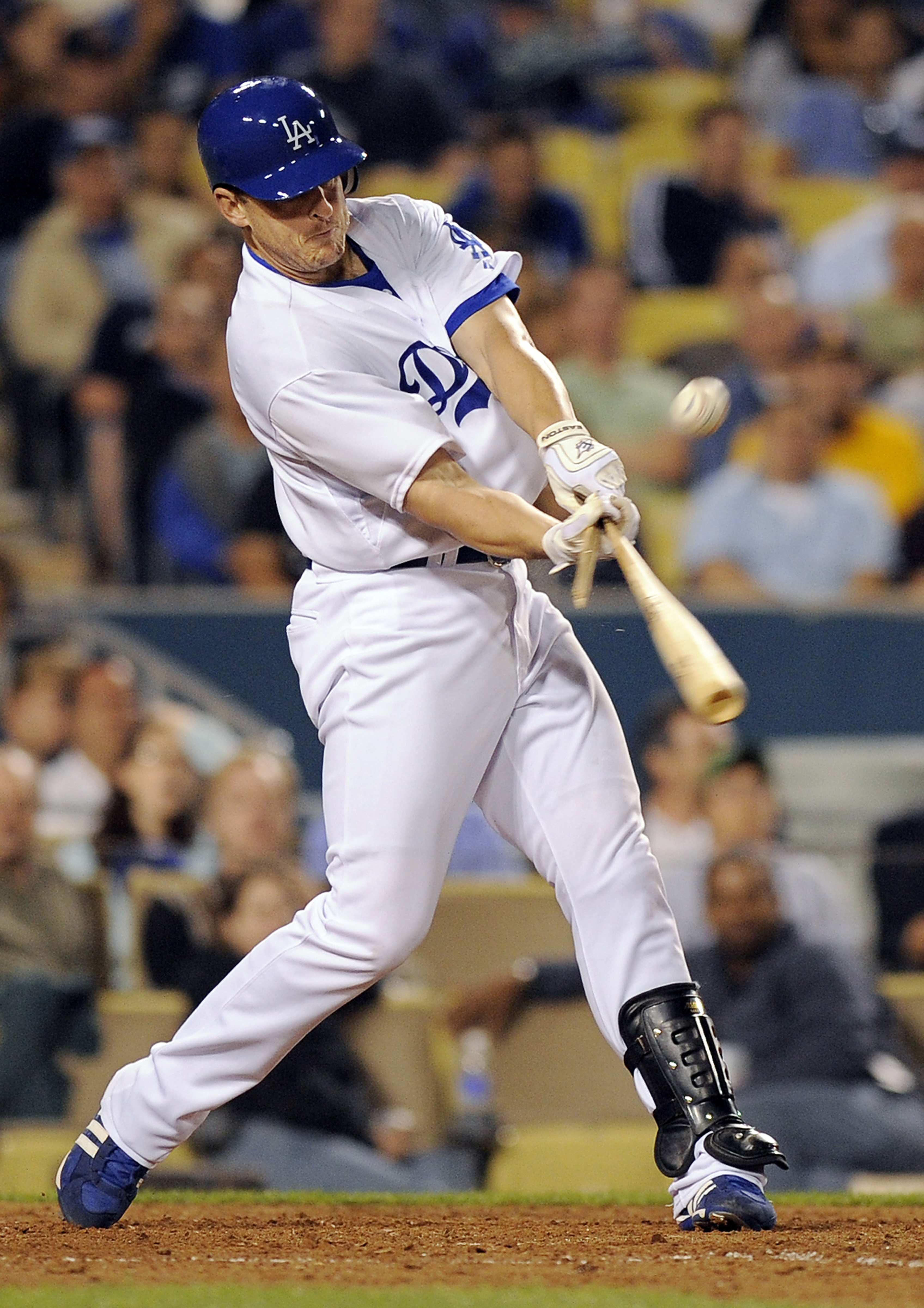 Mitch Jones 1st MLB at Bat